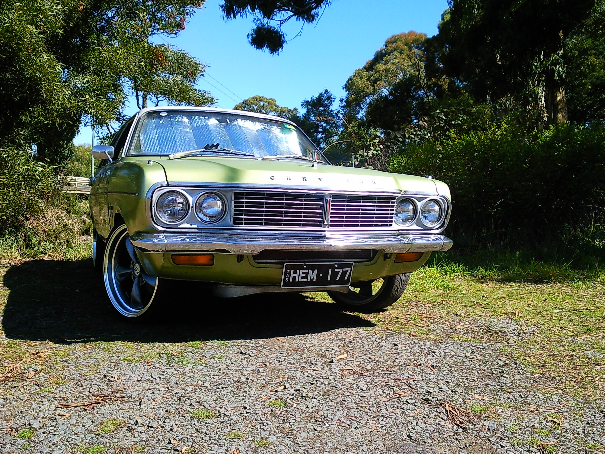 Modified 1977 Chrysler KC Centura sedan.